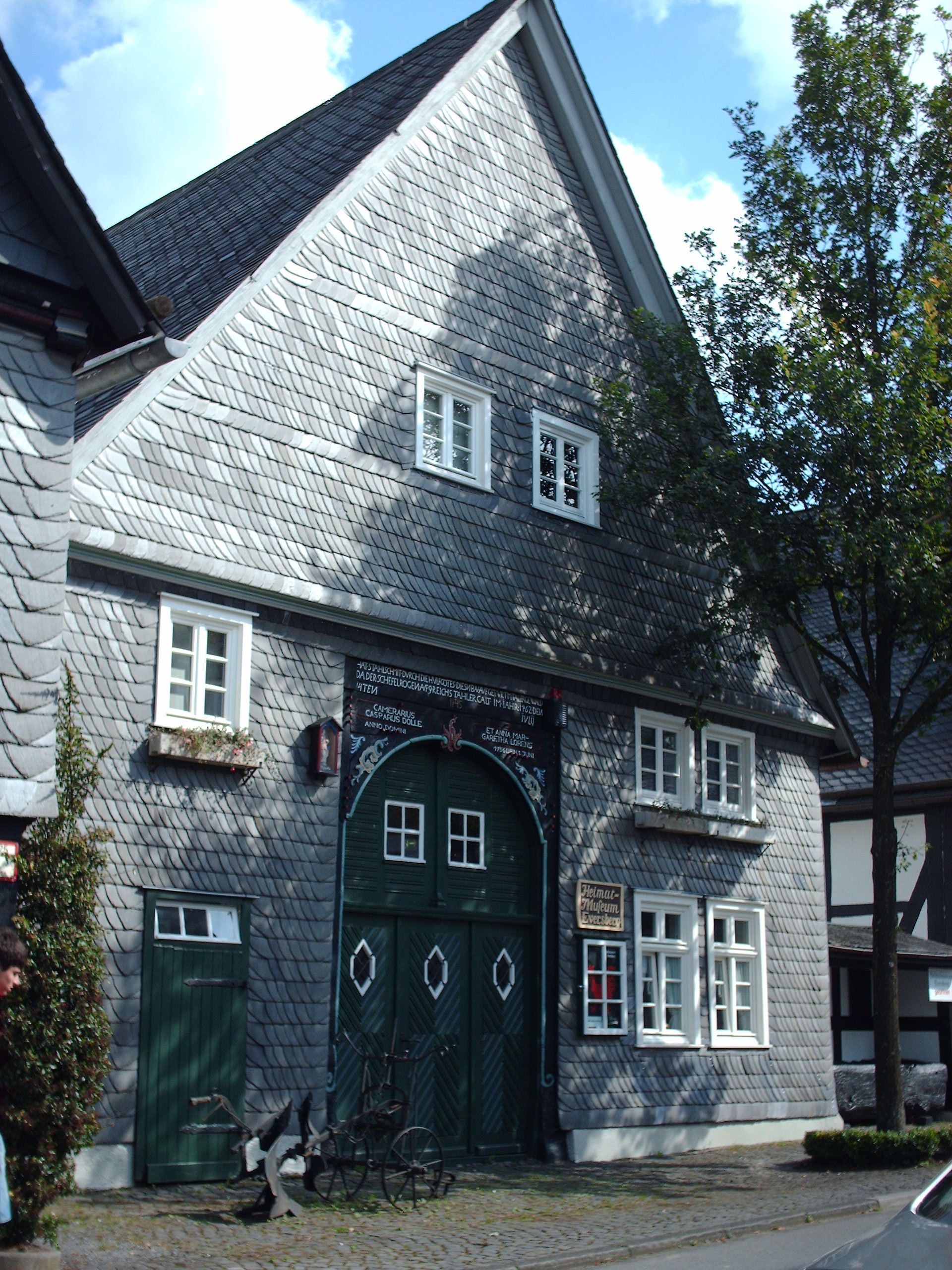 Museum of local history Eversberg, Meschede, Germany check usage